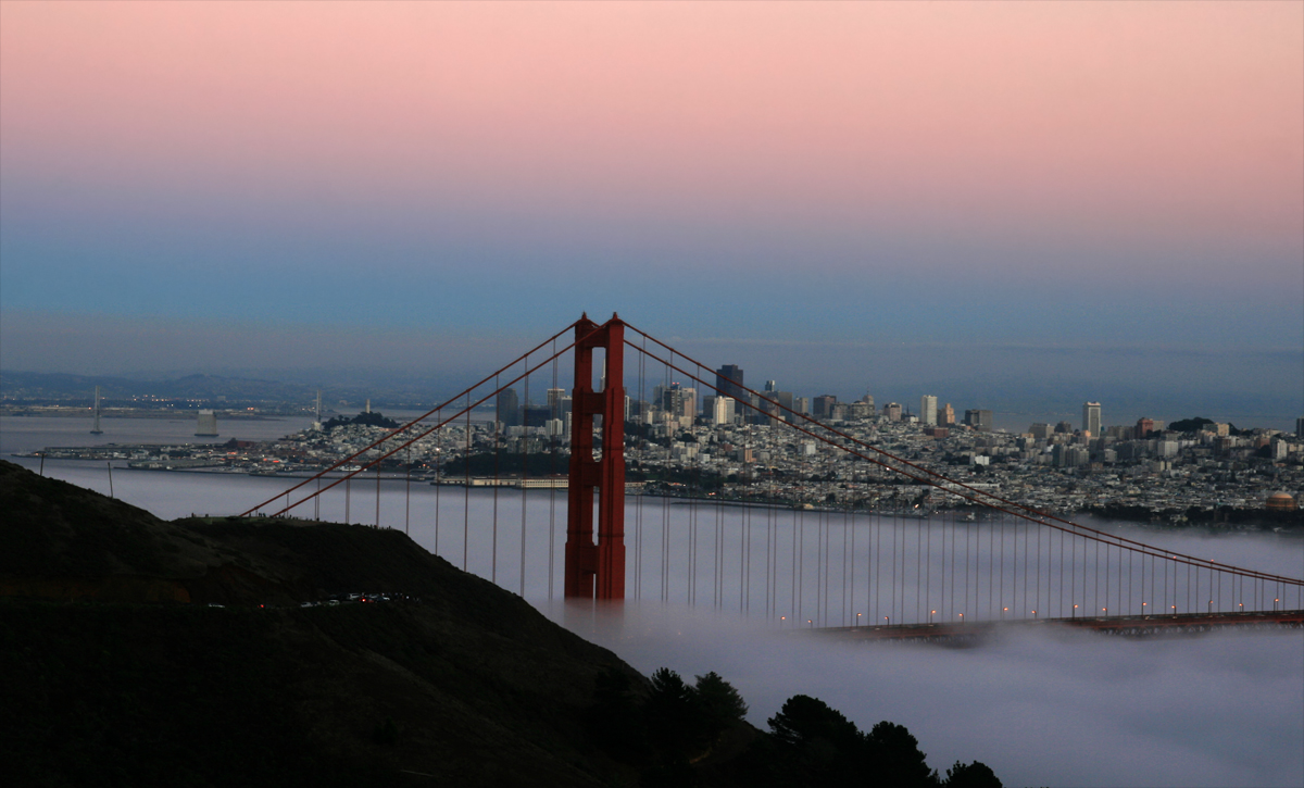 Golden Gate Bridge, the Belt of Venus and the Earth's shadow